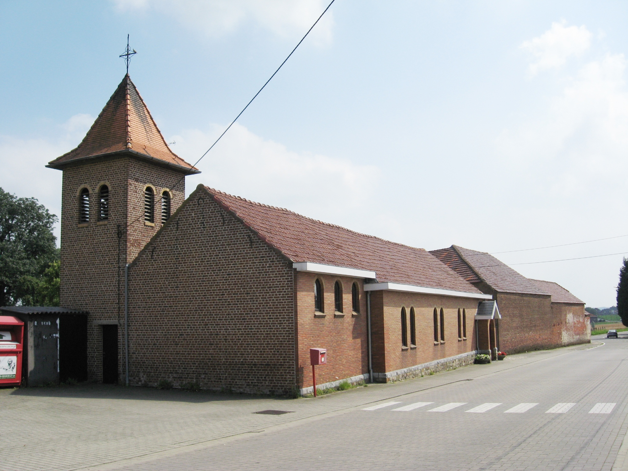 Church of Our Lady Help of Christians in Stok, Hoeleden, Kortenaken, Flemish Brabant, Belgium